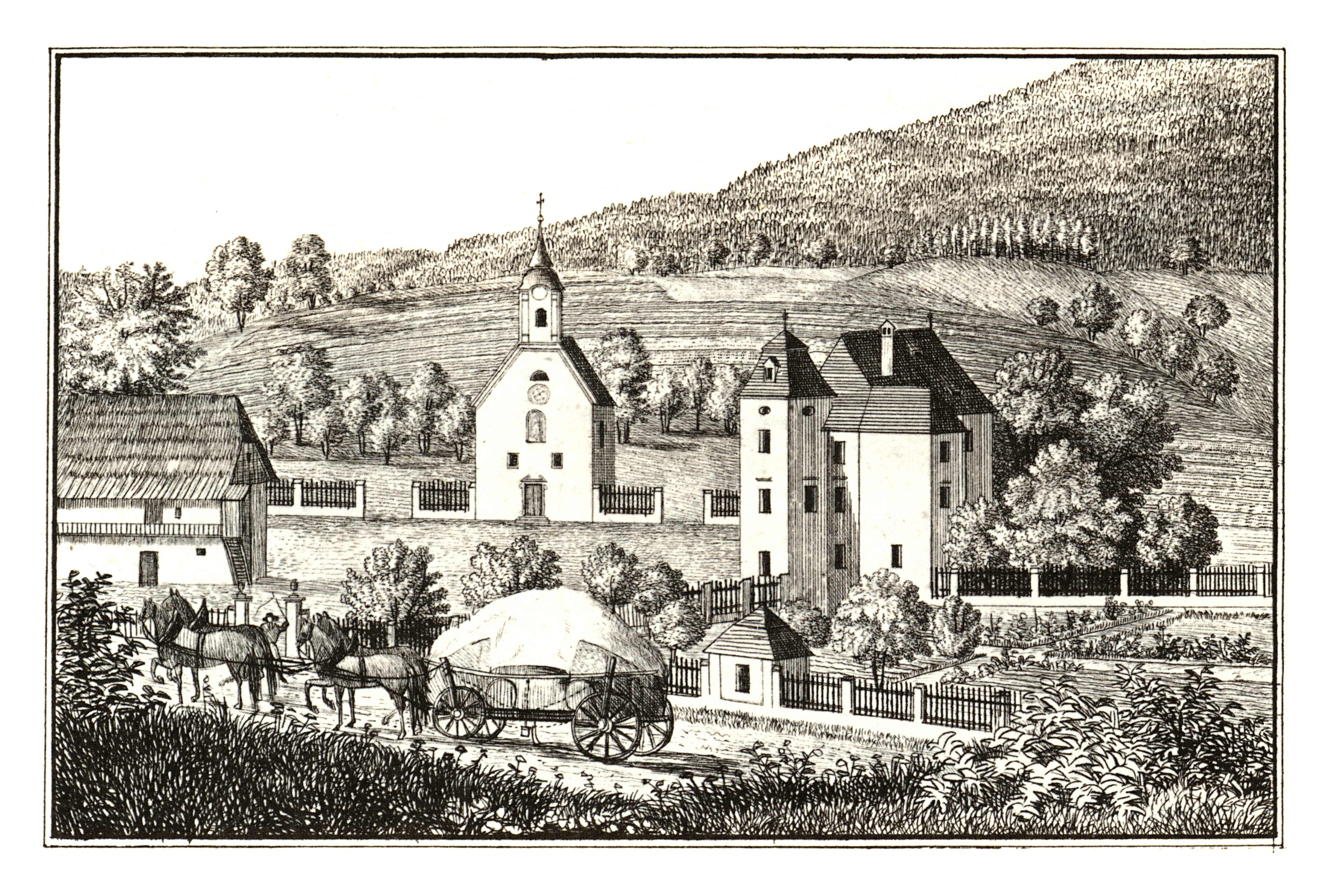 J. F. Kaiser - lithographirte Ansichten der Steyermärkischen Städte, Märkte und Schlösser, Graz 1824-1833 Joseph Franz Kaiser (1786–1859) Alternative names J. F. KaiserDescriptionAustrian printer and editorDate of birth/death 11 March 1786 19 September 1859Location of birth/death Graz (Styria) GrazAuthority control : Q1499963 VIAF: 30629353 ISNI: 0000 0000 3083 0153 LCCN: n87141671 GND: 129880159 NLP: A24960305 WorldCat creator QS:P170,Q1499963 . Scanprojekt Community Projektbudget 2012 This scan or this PDF-file was created within the GLAM-project Bookscanning, supported by Wikimedia Germany and Wikimedia Austria as a part of the community-project to capture books, documents and pictures which are not eligible to copyright or for which the copyright has expired. This document describes or depicts an object which is located in Austria today. Send requests for uncompressed scans to Hubertl. This work is in the public domain in its country of origin and other countries and areas where the copyright term is the author's life plus 100 years or fewer. You must also include a United States public domain tag to indicate why this work is in the public domain in the United States. This file has been identified as being free of known restrictions under copyright law, including all related and neighboring rights.